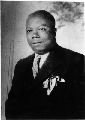 Bennie Moten Kansas city leader band from 1922 to 1935